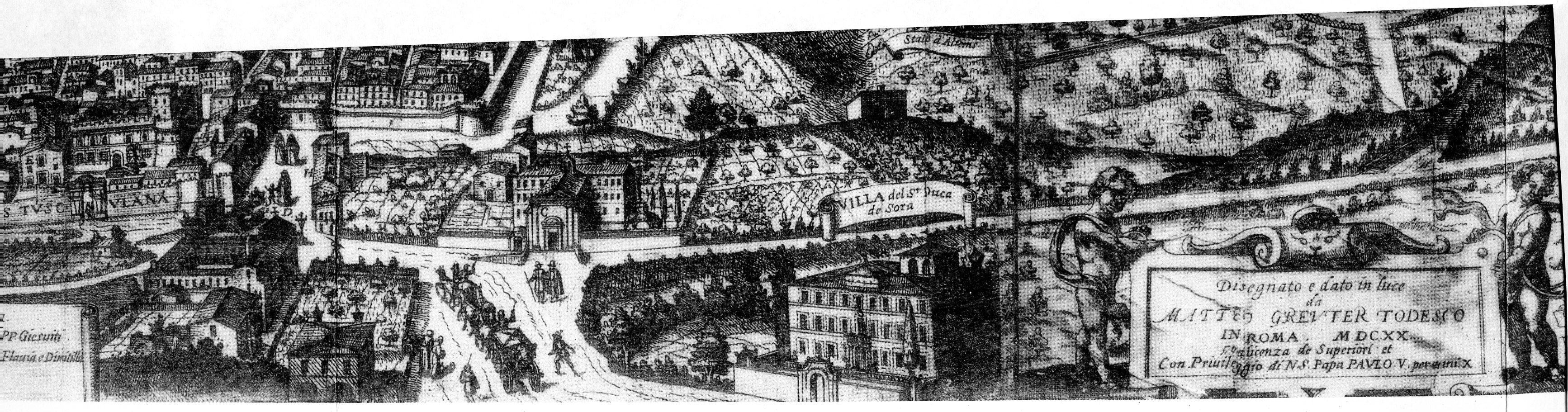 Photo of old print (more 100 years) taken by the author Luiclemens